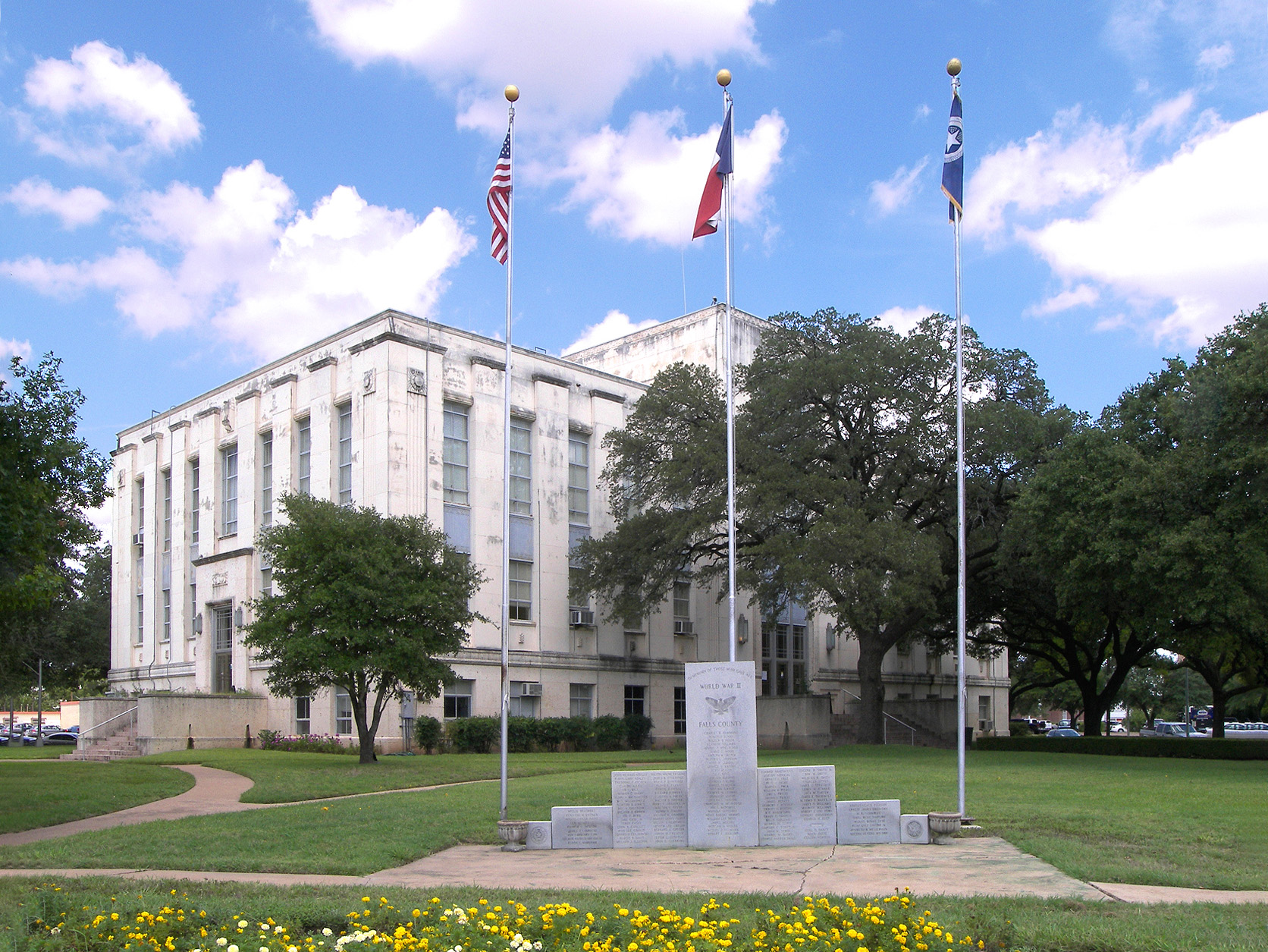 The Falls County, Texas courthouse in Marlin, Texas, United States. The courthouse was listed on the National Register of Historic Places on December 13, 2000.